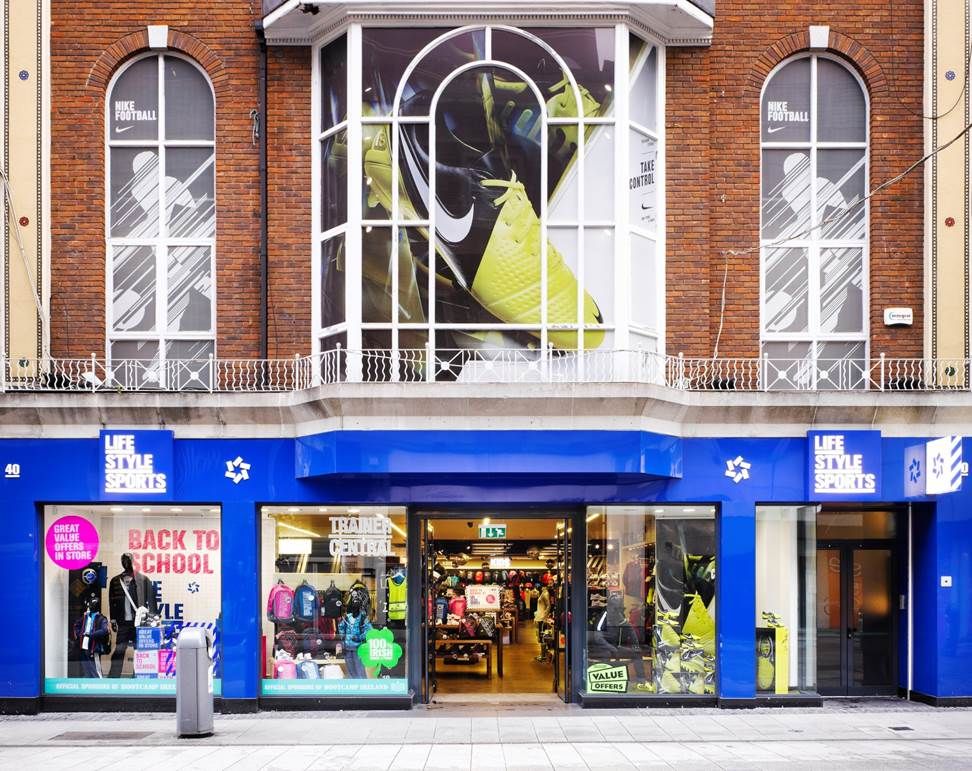 This is an up to date image of Life Style Sports Flagship store in Mary Street, Dublin 1.